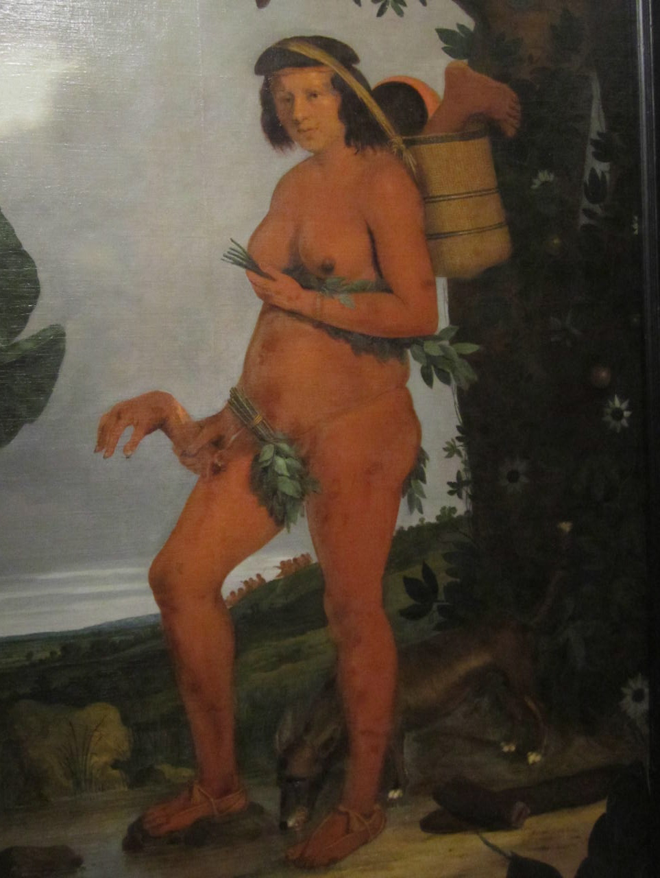 Tapuya woman. Painted by Albert Eckhout and signed in 1641.